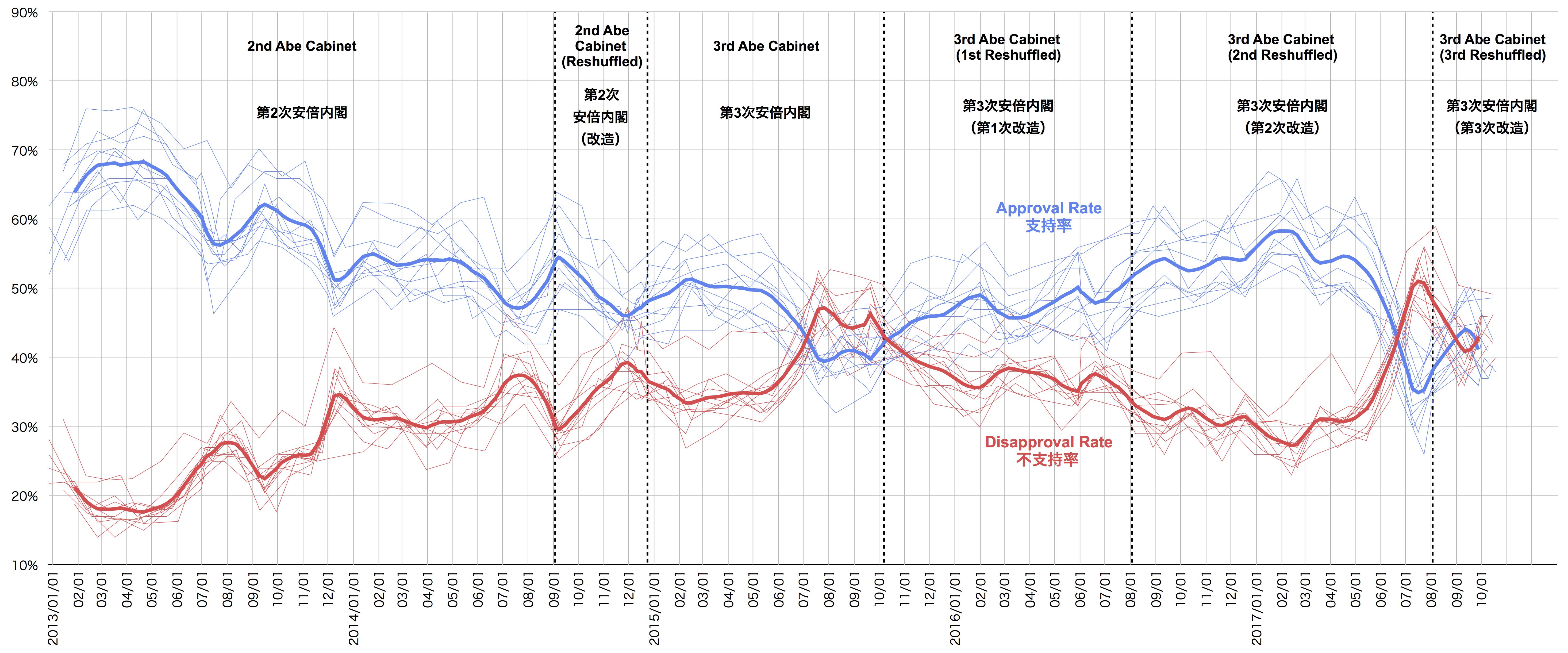 2nd and 3rd Shinzō Abe Cabinet Approval (blue) and Disapproval (red) Ratings, According to Major 11 Opinion Polls (ANN, JNN, FNN, NHK, NTV, Asahi Shimbun, Mainichi Shimbun, The Nikkei & TV Tokyo, Yomiuri Shimbun, Kyodo News, Jiji Press).